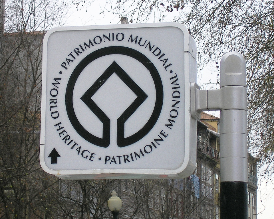 World heritage sign in Porto, Portugal